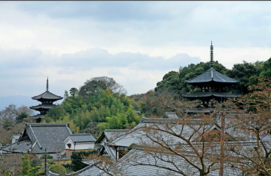 Taemaji 2